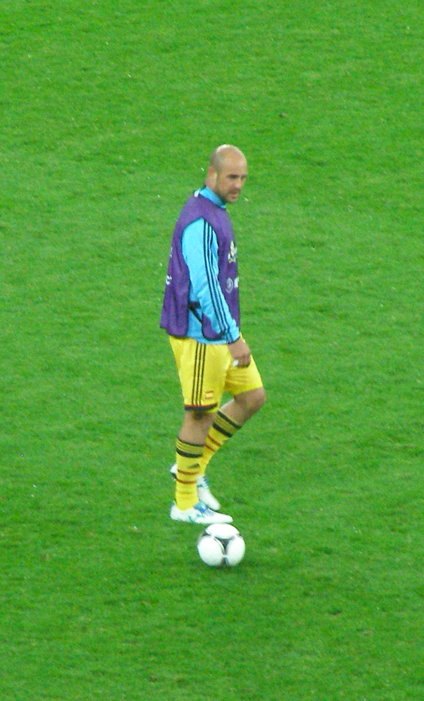 Gdańsk - PGE Arena - Euro 2012 - Group C match Spain - Rep. of Ireland - José Manuel Reina